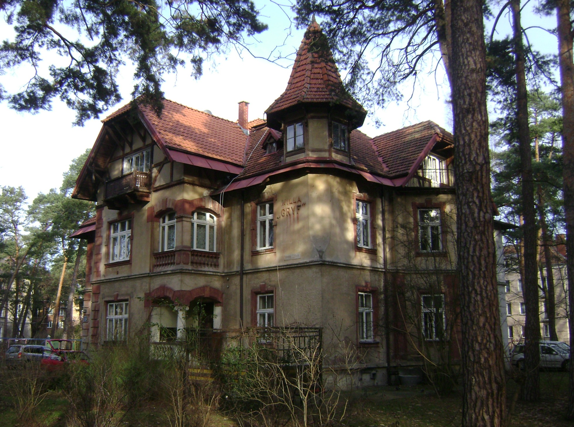 Poland. Konstancin-Jeziorna. Villa "Gryf" ("Griffon") by Bronisław Czosnowski